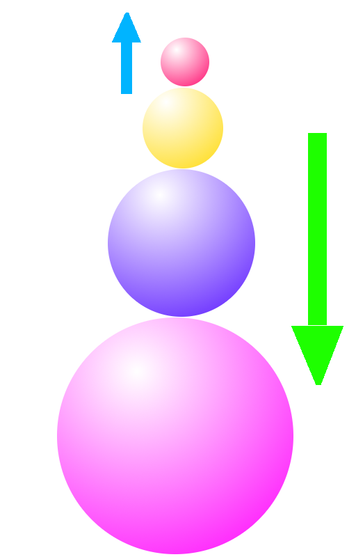 A diagram showing a Galilean Cannon - which is a simple demonstration of the conservation of linear momentum.